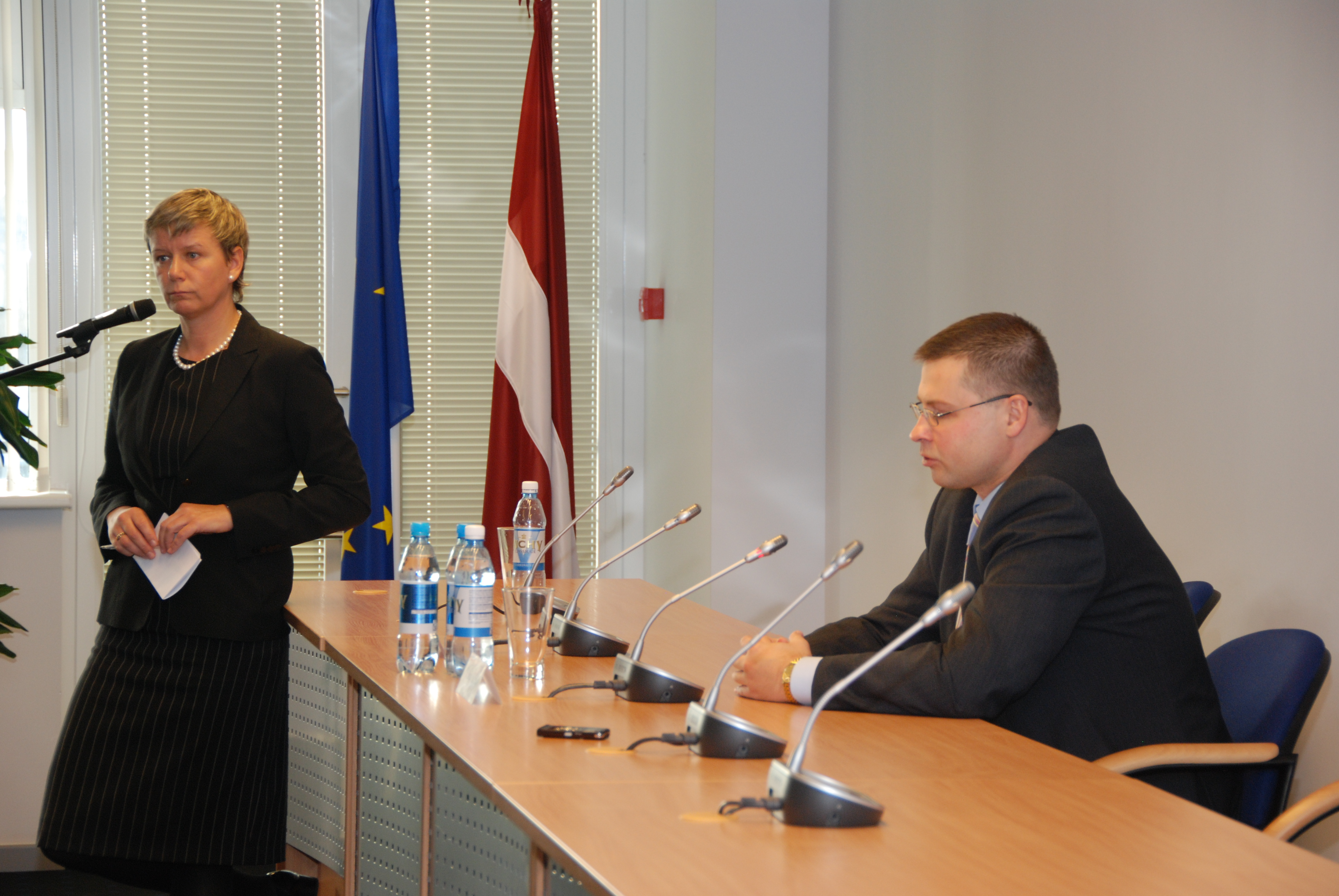 (From left to right): Minister of Interior Affairs of Latvia Linda Mūrniece and Prime Minister Valdis Dombrovskis meet policemen of Riga region.